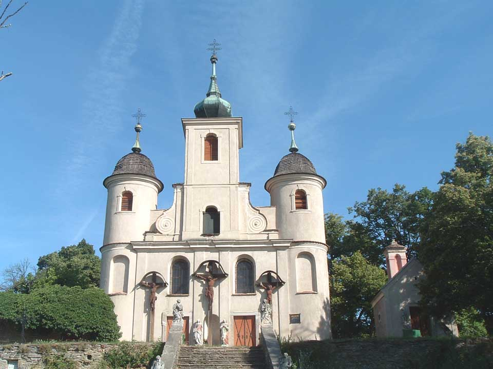 The Calvary-church in Kőszeg, Hungary